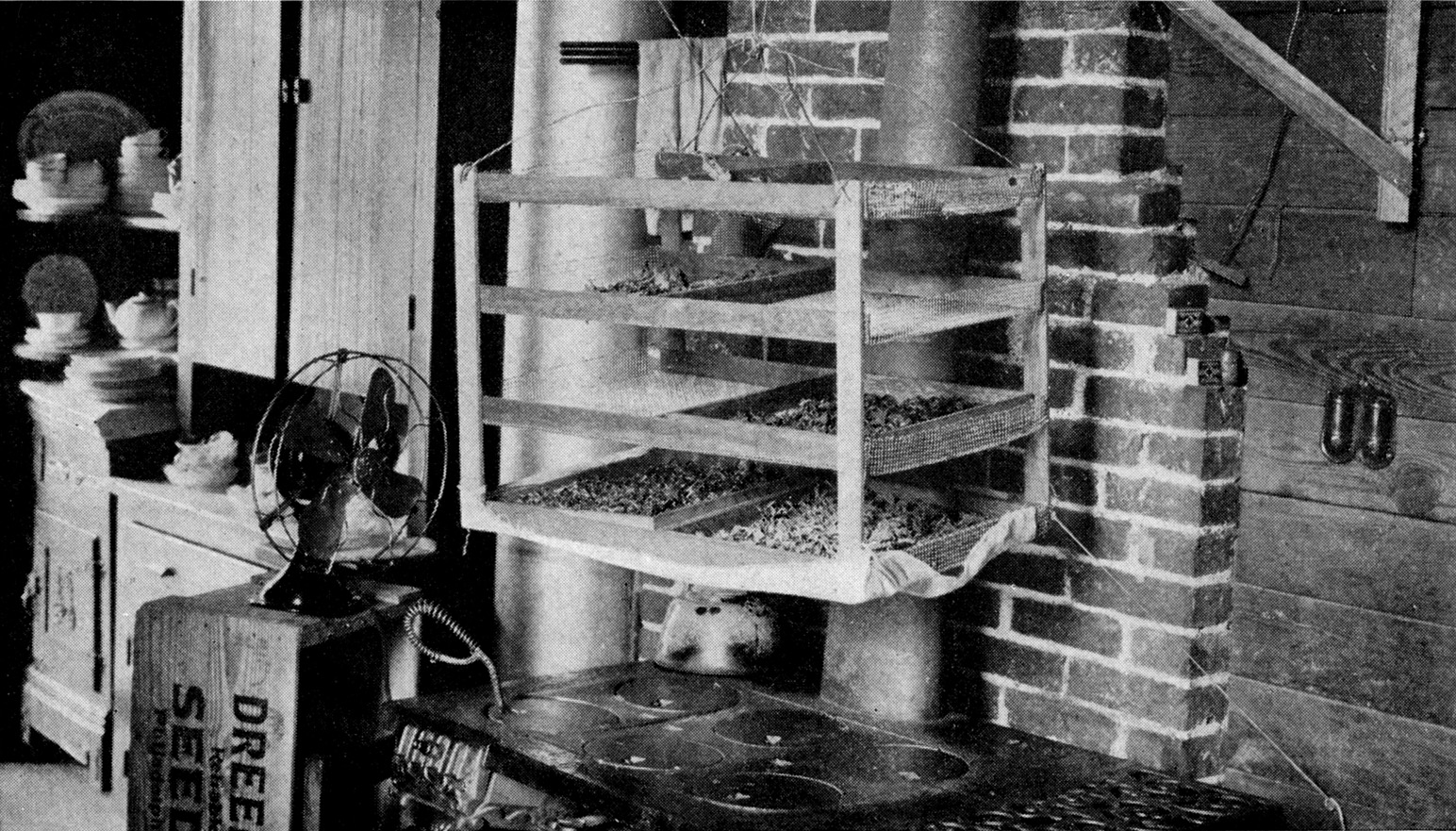 THE HANGING STOVE DRIER SWUNG OVER THE KITCHEN STOVE AFTER THE MEAL HAS BEEN PREPARED. It utilizes heat which otherwise would be wasted. When the stove is required for cooking purposes, the drier can be swung back out of the way by means of the wooden bracket made of lath and attached to the wall by a bent nail and piece of fence wire. An electric fan can be trained on the drier to hasten the drying process. It can be kept running at night when the kitchen stove is cold.